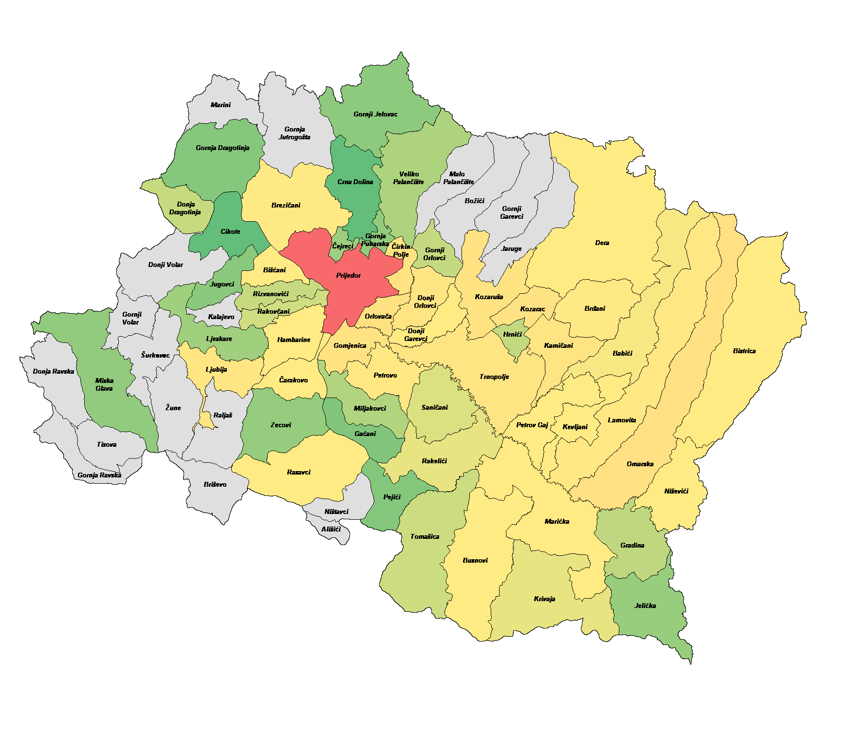 Prijedor